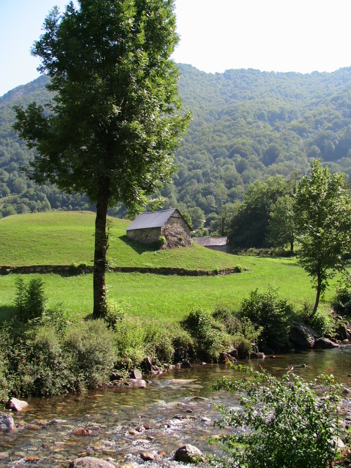 Ustou